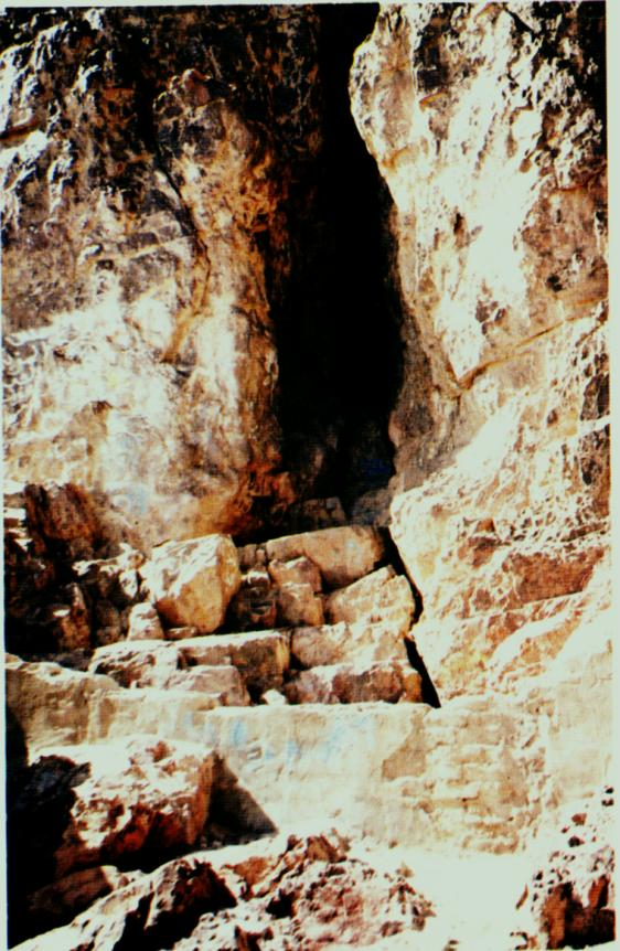 Uhud Mountain in Saudi Arabia